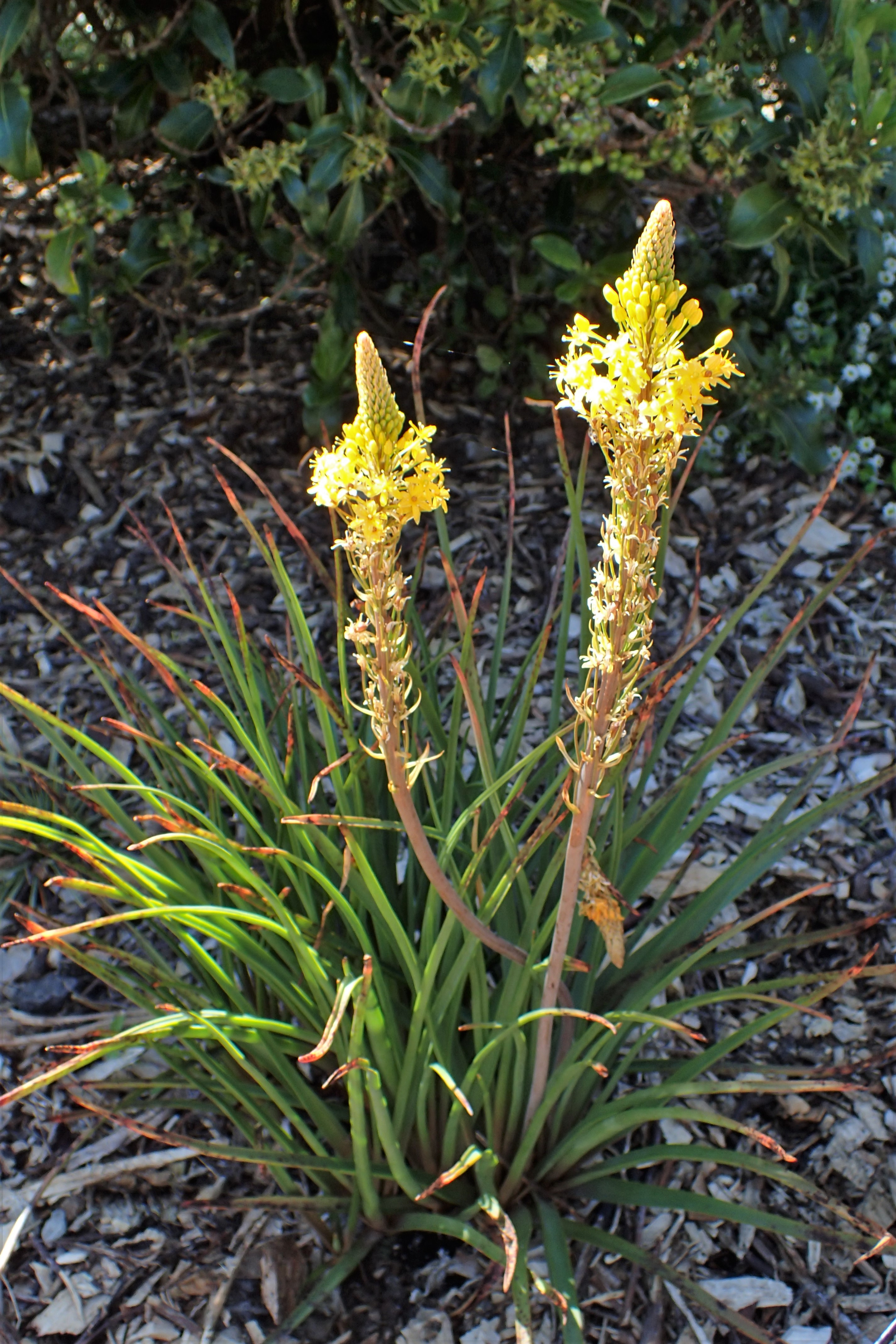 Bulbinella hookeri in Dunedin Botanic Garden